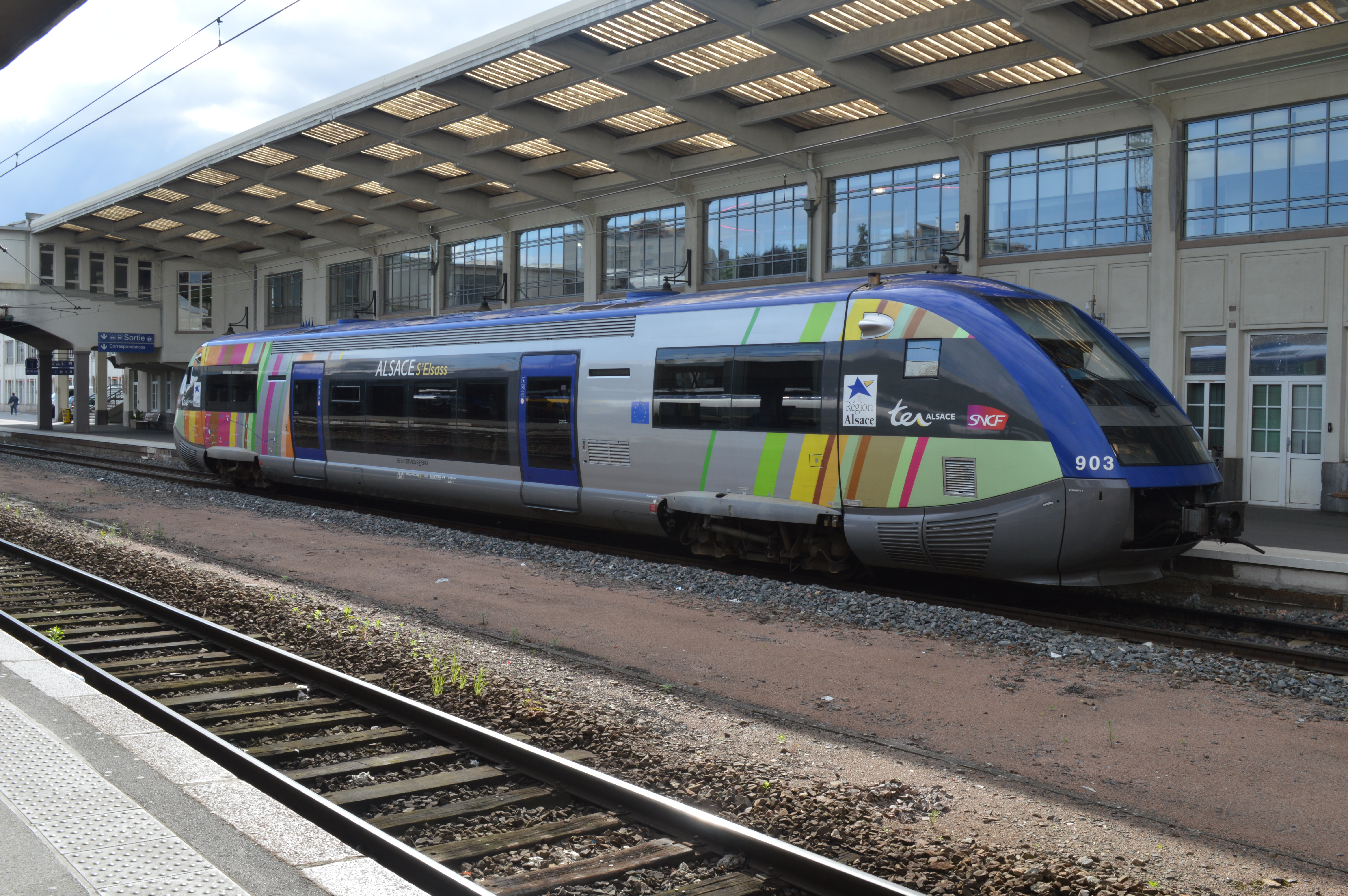 2013 Czech Republic Trip Day One 19 of these single diesel railcars were built for SNCF to operate on regional lines crossing from France into Germany. As a result, they are adapted for signalling systems of both SNCF and DB. Despite many routes are entirely under the wires, it was decided to go for a diesel only fleet. Seen at Mulhouse Ville on 11 May 2013 is X 73903 on train TER 87491, 17:53 Mulhouse-Ville to Müllheim (Baden). The line has been freight only for many years but finally re-opened for passenger traffic in December 2012. As a result I was able to incorporate this route as part of my London to Wien journey via Paris, Basel and Zürich.